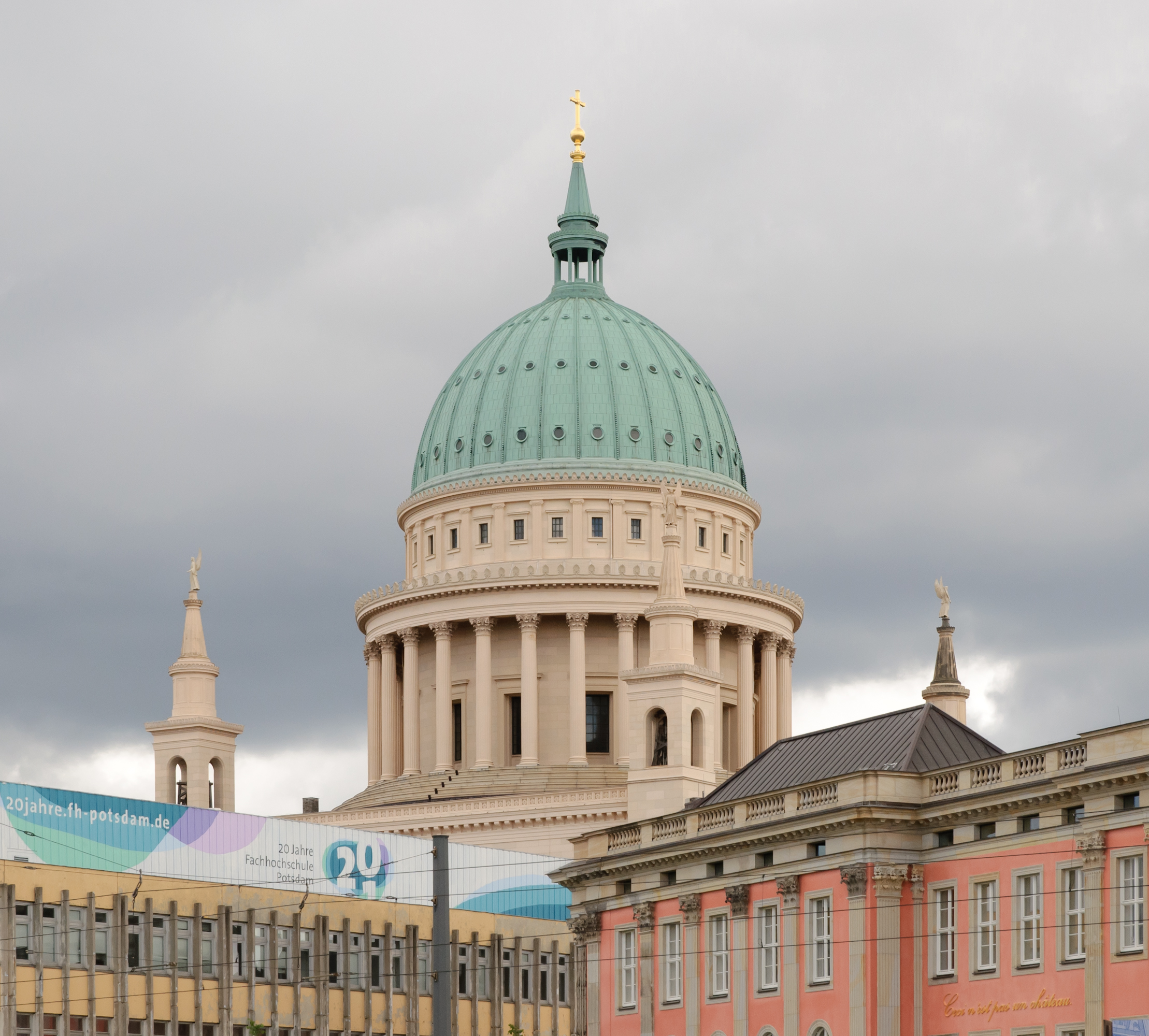 The dome of St. Nicholas' Church in Potsdam, Germany.